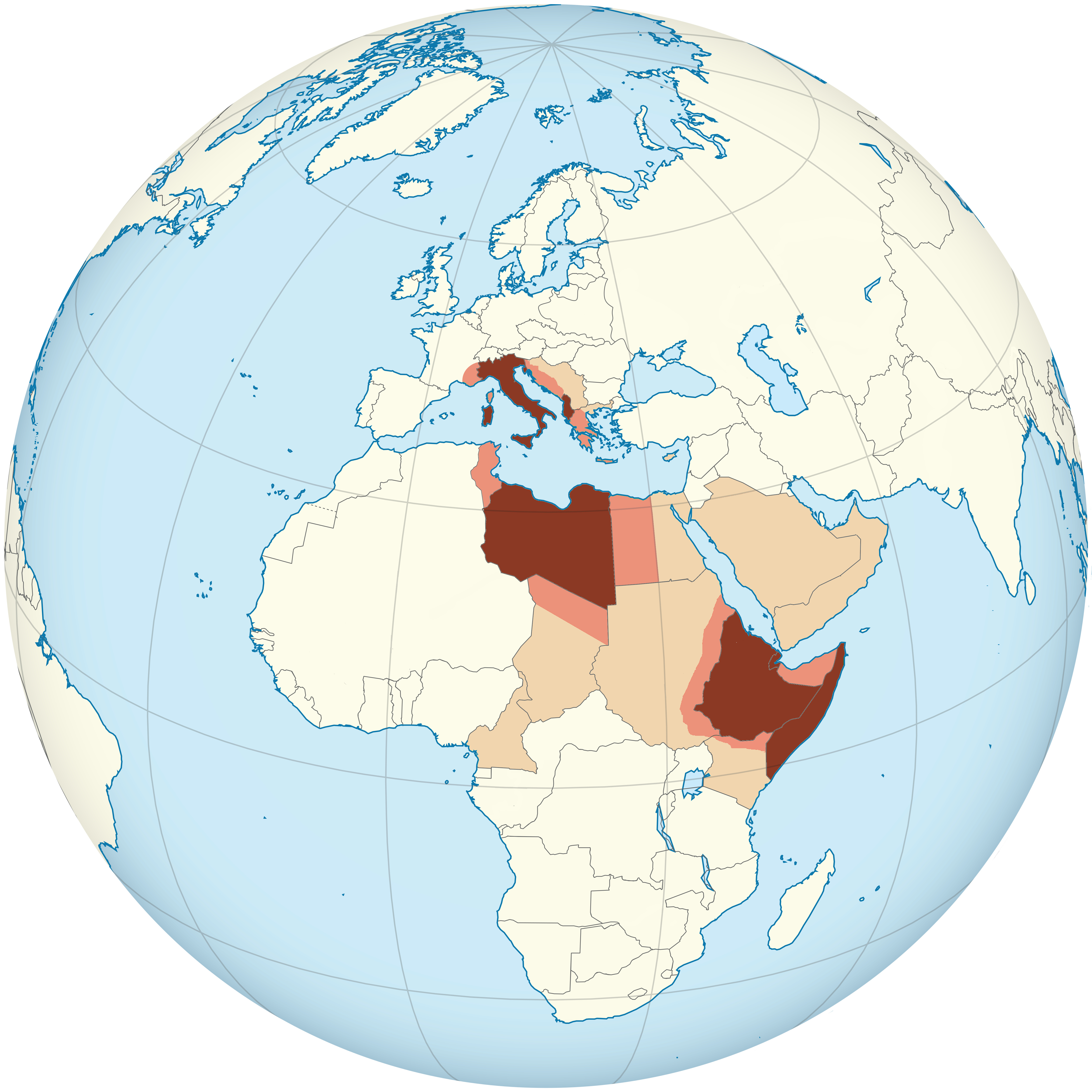 A globe map of the expansion zones of fascist Italy.